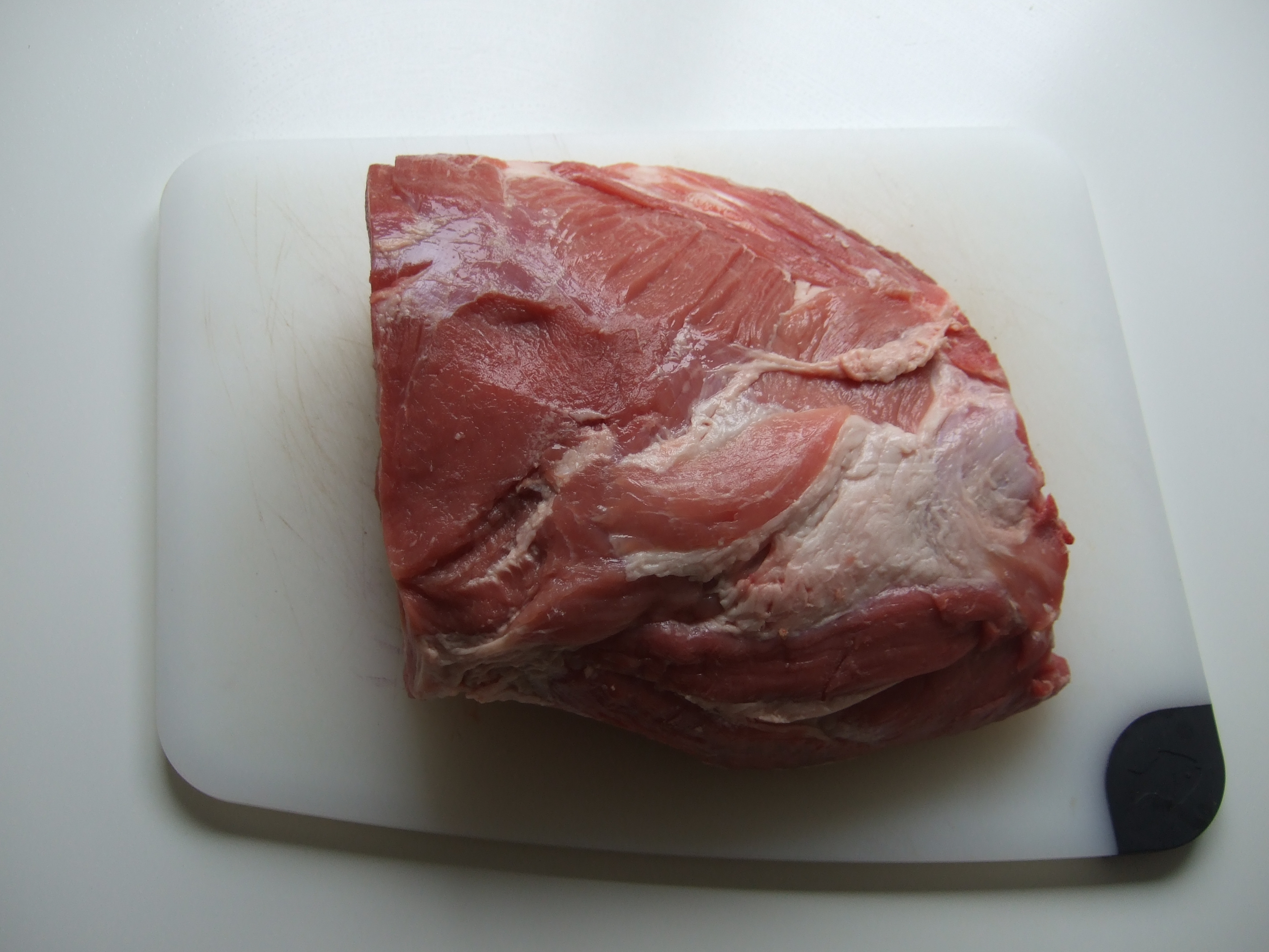 Pork blade.